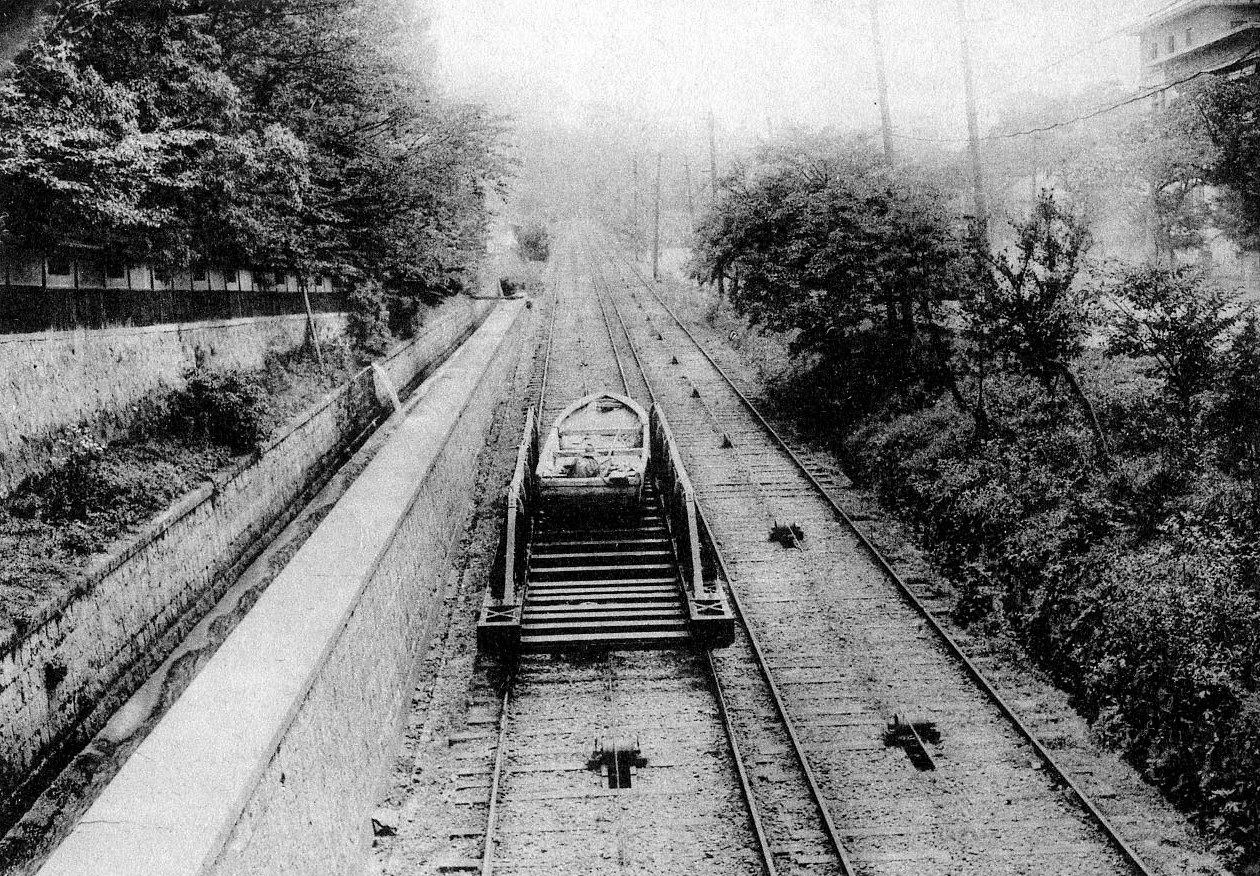 Incline of Lake Biwa Canal in Kyoto, Japan. Seen from the bottom of the railway at the entrance road to Nanzen-ji temple. Around 1940.